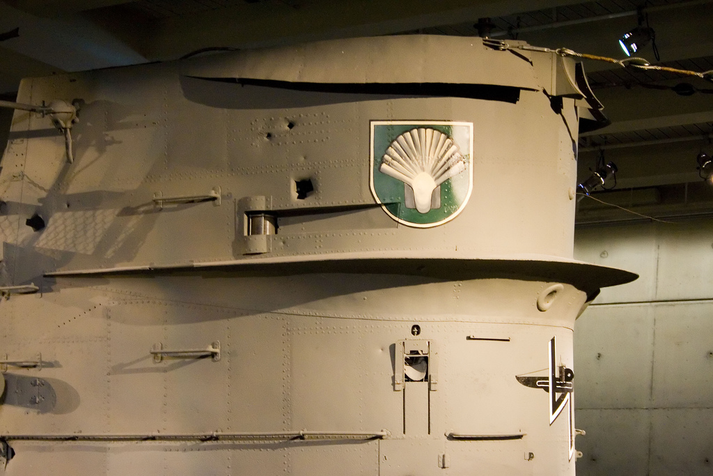 Upper portion of U-505 in the Museum of Science and Industry, Chicago, IL.